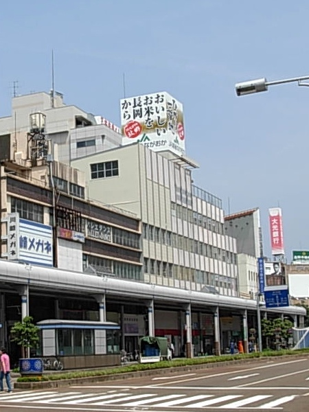 Nagaoka Civic Center, Nagaoka, Niigata Prefecture, Japan